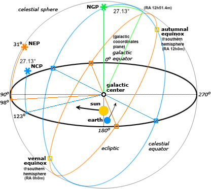 Orientation of the galactic, ecliptic and celestial (earth based) astronomical coordinate systems, projected on the celestial sphere, showing the galactic equator (black) and north galactic pole (NGP), the ecliptic (orange) and north ecliptic pole (NEP), and the celestial equator (blue) and north celestial pole (NCP). Sun and earth not shown to scale but to indicate sun's orbital direction around the galactic center and earth's orbital direction around the sun.